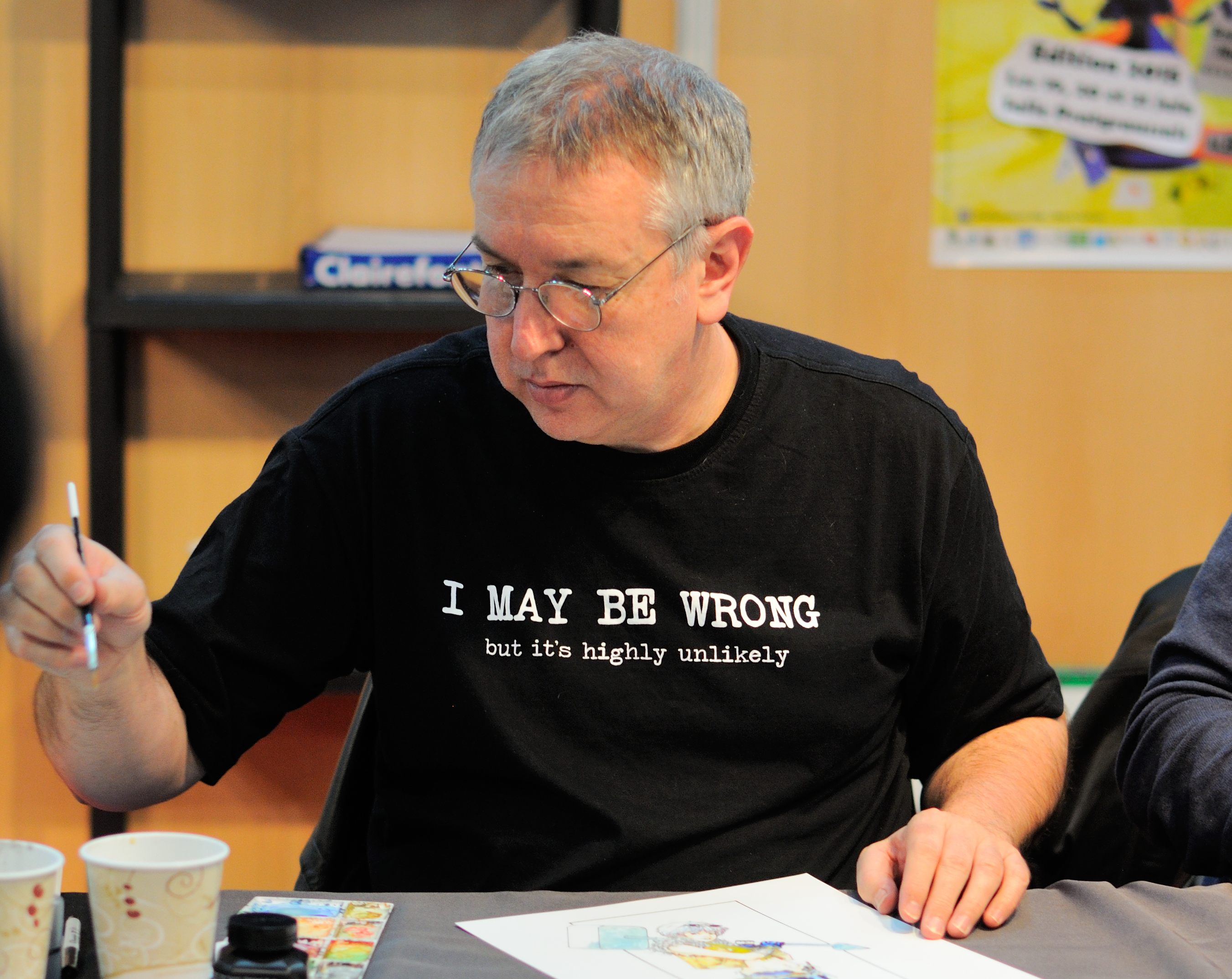 Barry Kitson at Toulouse Game Show 2014.